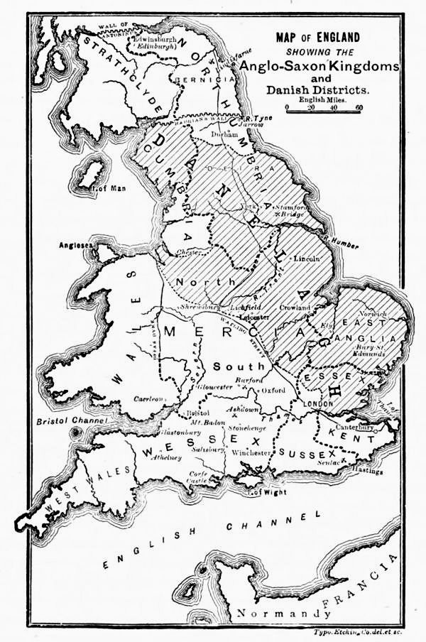 Map of England Showing the Anglo-Saxon Kingdoms and Danish Districts - from Cassell's History of England, Vol. I - anonymous author and artists